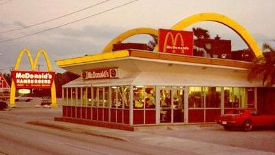 I took this picture of a "retro" McDonald's in Tampa, Florida, on May 2, 1979. Wahkeenah 14:43, 10 September 2006 (UTC)